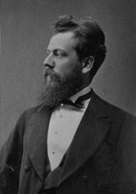 Ture Malmgren (1851-1922), Swedish local politician and founder of the newspaper Bohusläningen. Photo cropped from source.